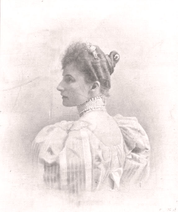 Princess Louise of Thurn and Taxis